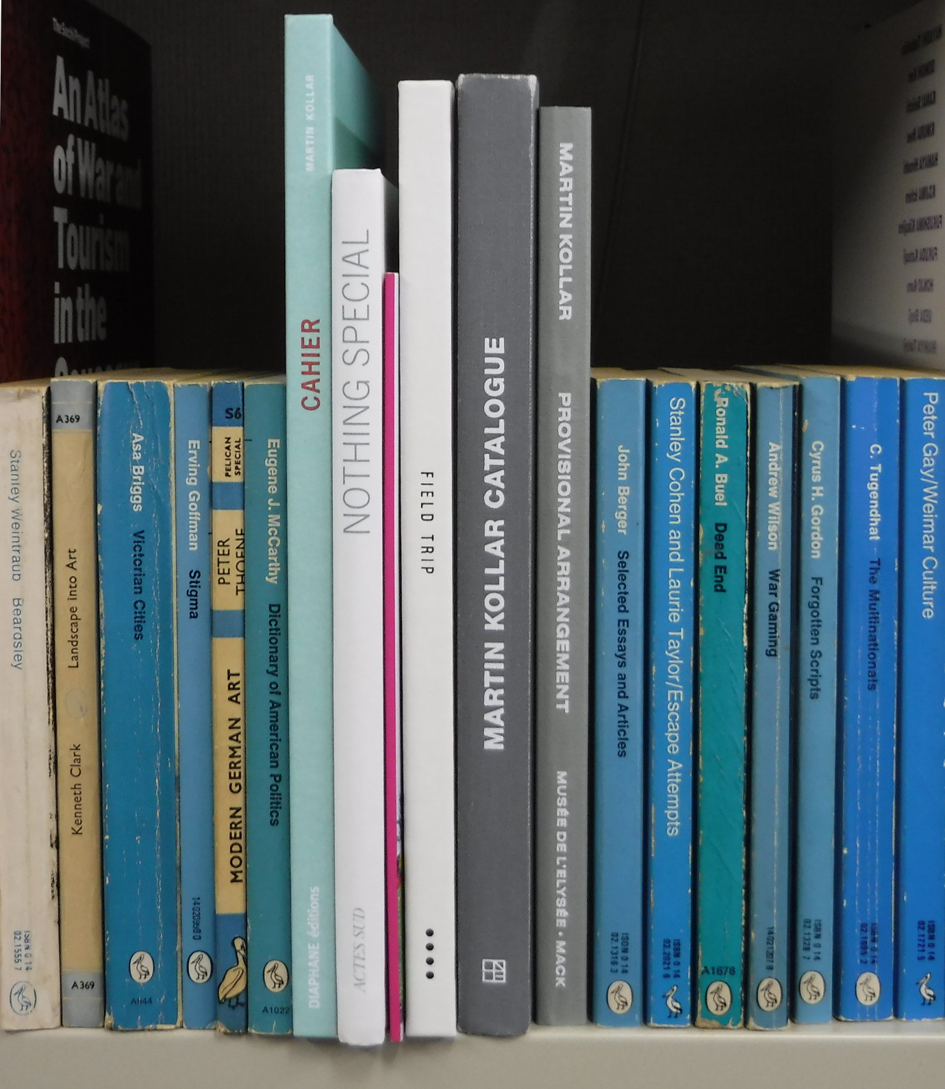 Some photobooks by Martin Kollár (Martin Kollar); from left to right: Cahier, Nothing Special (French edition), Kollár's volume within the set Y'a de la joie, Field Trip, Catalogue, Provisional Arrangement ... flanked by irrelevant Pelicans